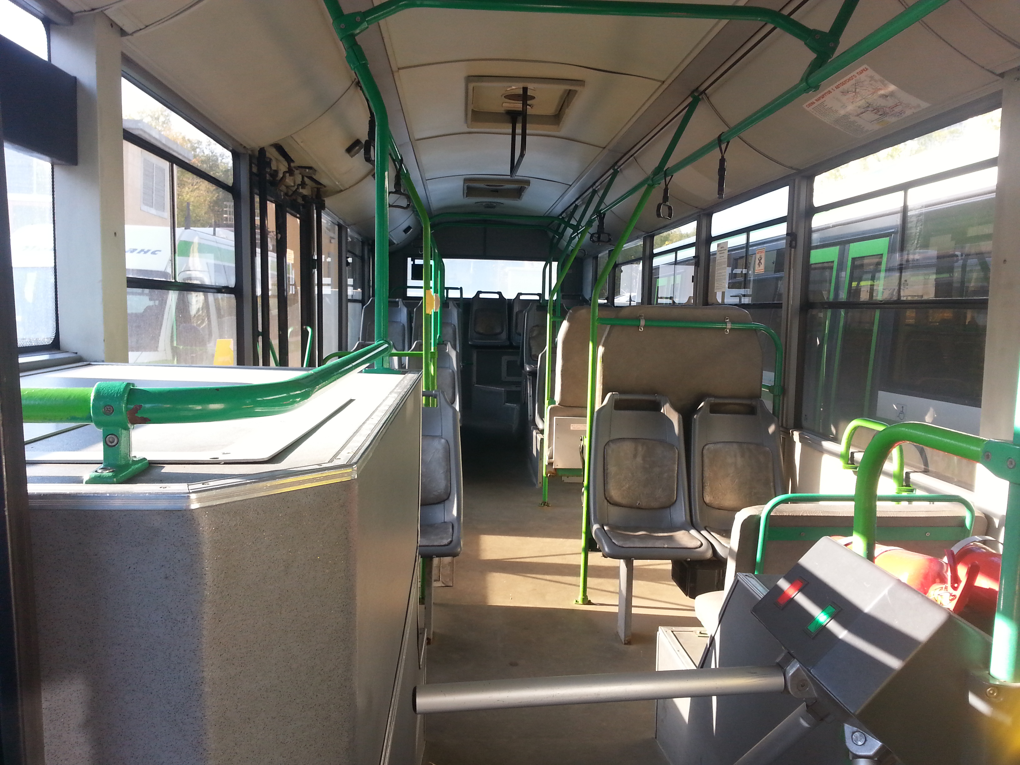 Volzhanin CityRhythm-12 in Moscow, near the metro station Molodyozhnaya. The cabin of the bus.